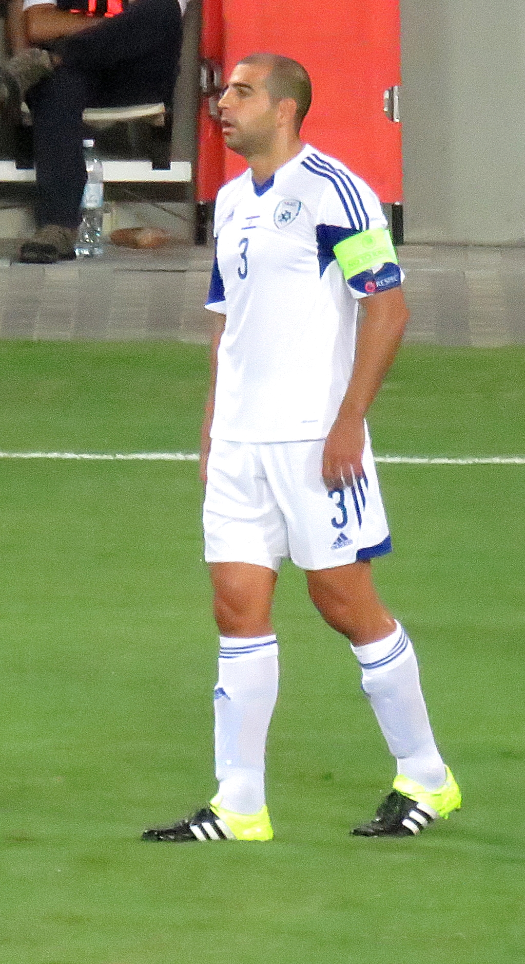 Israel vs. Andorra - September 3, 2015